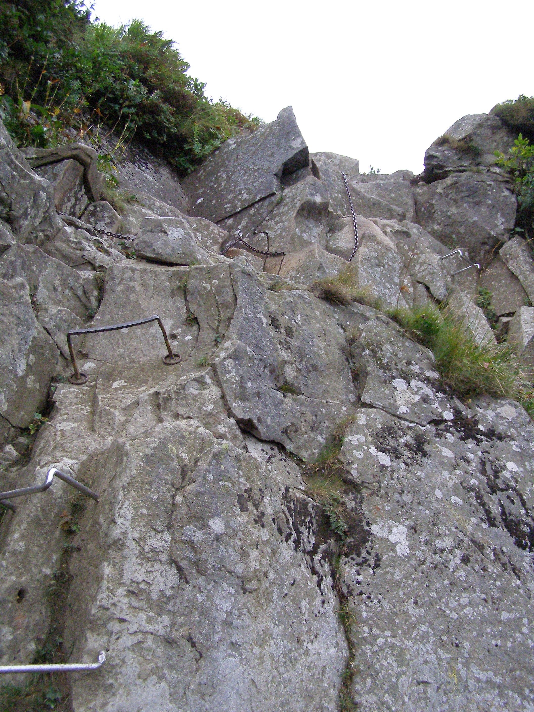 Babia Góra National Park - Perć Akademików hiking trail - Czarny Dziób rock